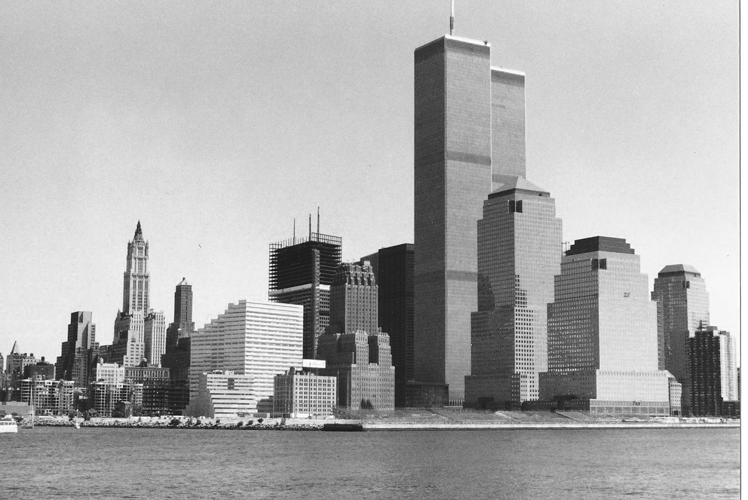 World Trade Center Towers in winter 1986